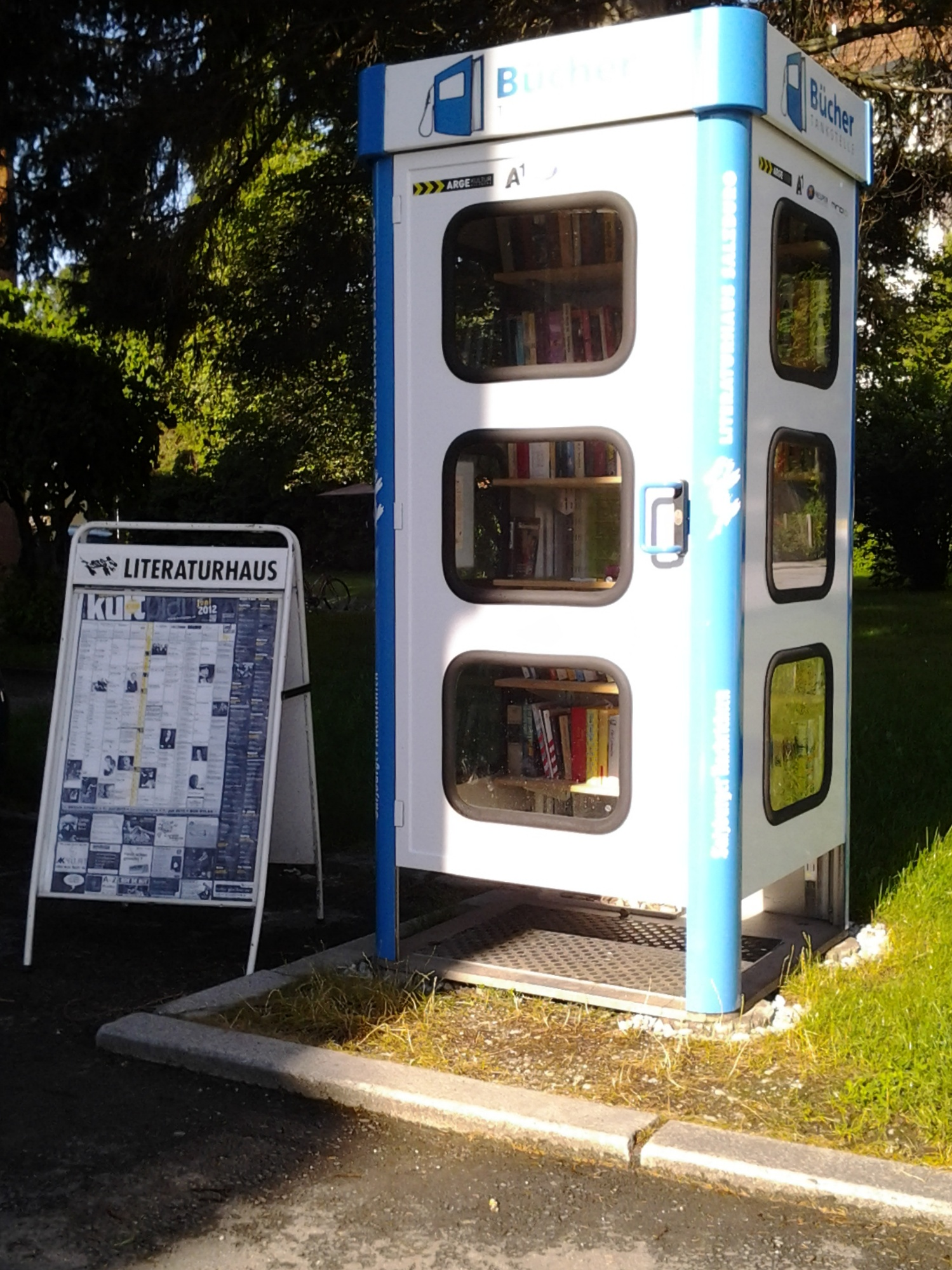 Public bookshelf in front of the Literaturhaus Salzburg in Salzburg (Austria)